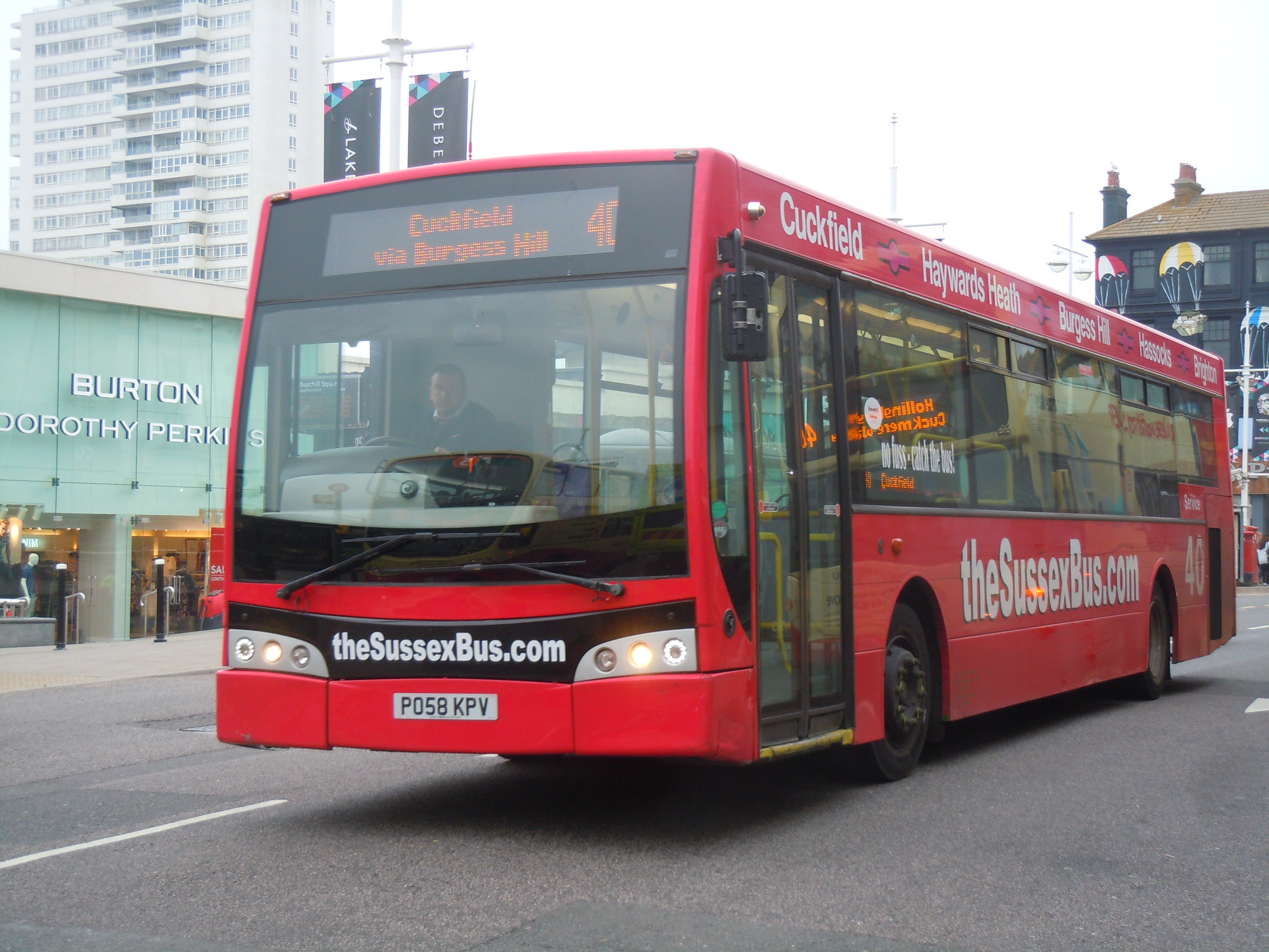 Bus: PO58 KPV Route: 40 Destination: Cuckfield Location: Churchill Square, Brighton Date: 6th September 2014